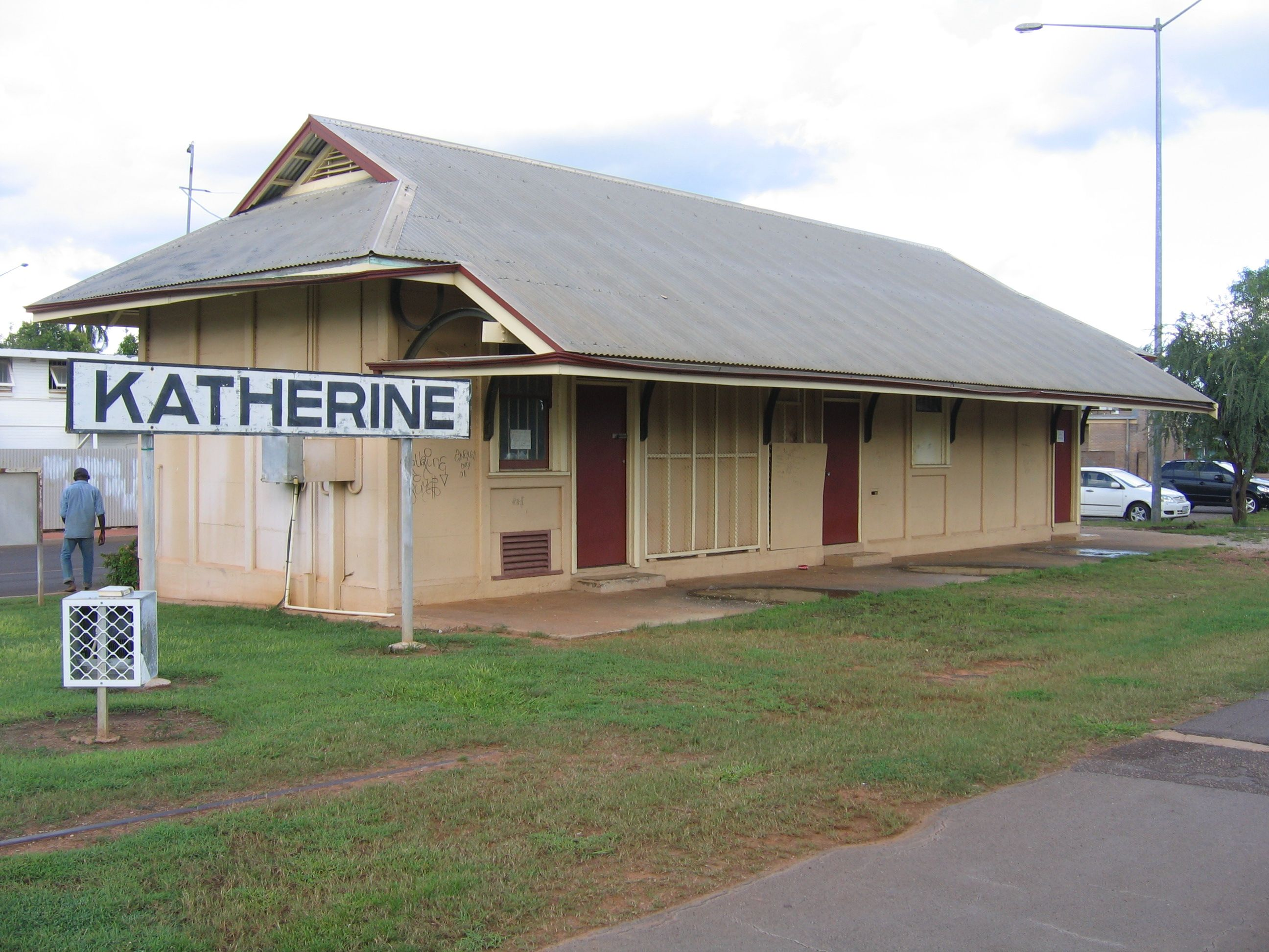 Old railway station Katherine